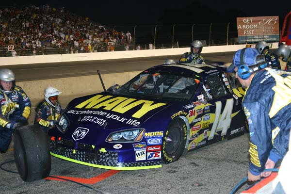 The #14 Dodge being driven by David Stremme for FitzBradshaw Racing at Indianapolis Raceway Park at Indianapolis, Indiana